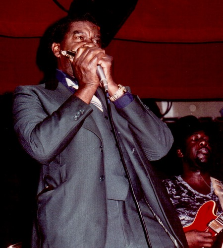 American blues harmonica player George "Harmonica" Smith in France